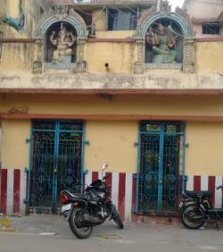 Thanjavuromalipillayarand urchavakaliammantemples தஞ்சாவூர் ஓமளிப்பிள்ளையார்உற்சவகாளியம்மன்கோயில்கள்